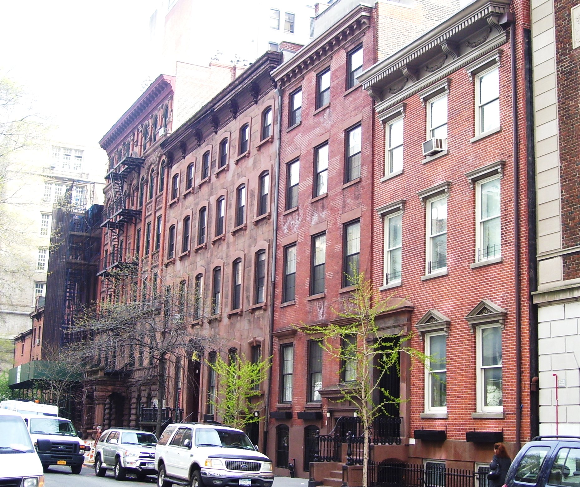 The East 17th Street/Irving Place Historic District consists of the buildings from 104 (right)-122 (left) East 17th Street between Union Square East and Irving Place. as well as 49 Irving Place (not seen), all in the Union Square neighborhood of Manhattan, New York City. It was designated by the New York City Landmark Preservation Commission on June 30, 1998. (Source: East 17th Street/Irving Place Historic Distric Designation Report)